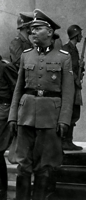 SS-Oberführer Emanuel Schäfer